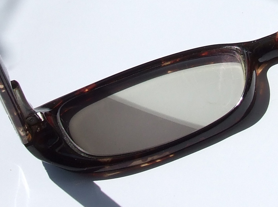 Photochromic Lenses, Prescription Glasses Online